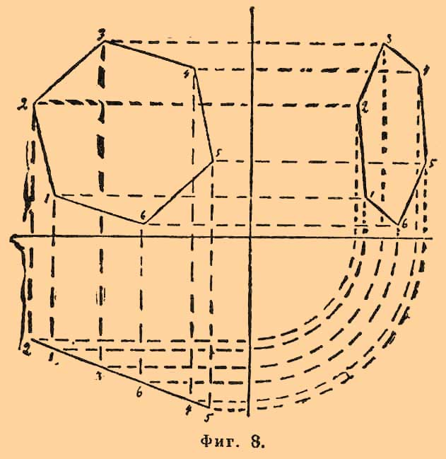 Illustration from Brockhaus and Efron Encyclopedic Dictionary (1890—1907)